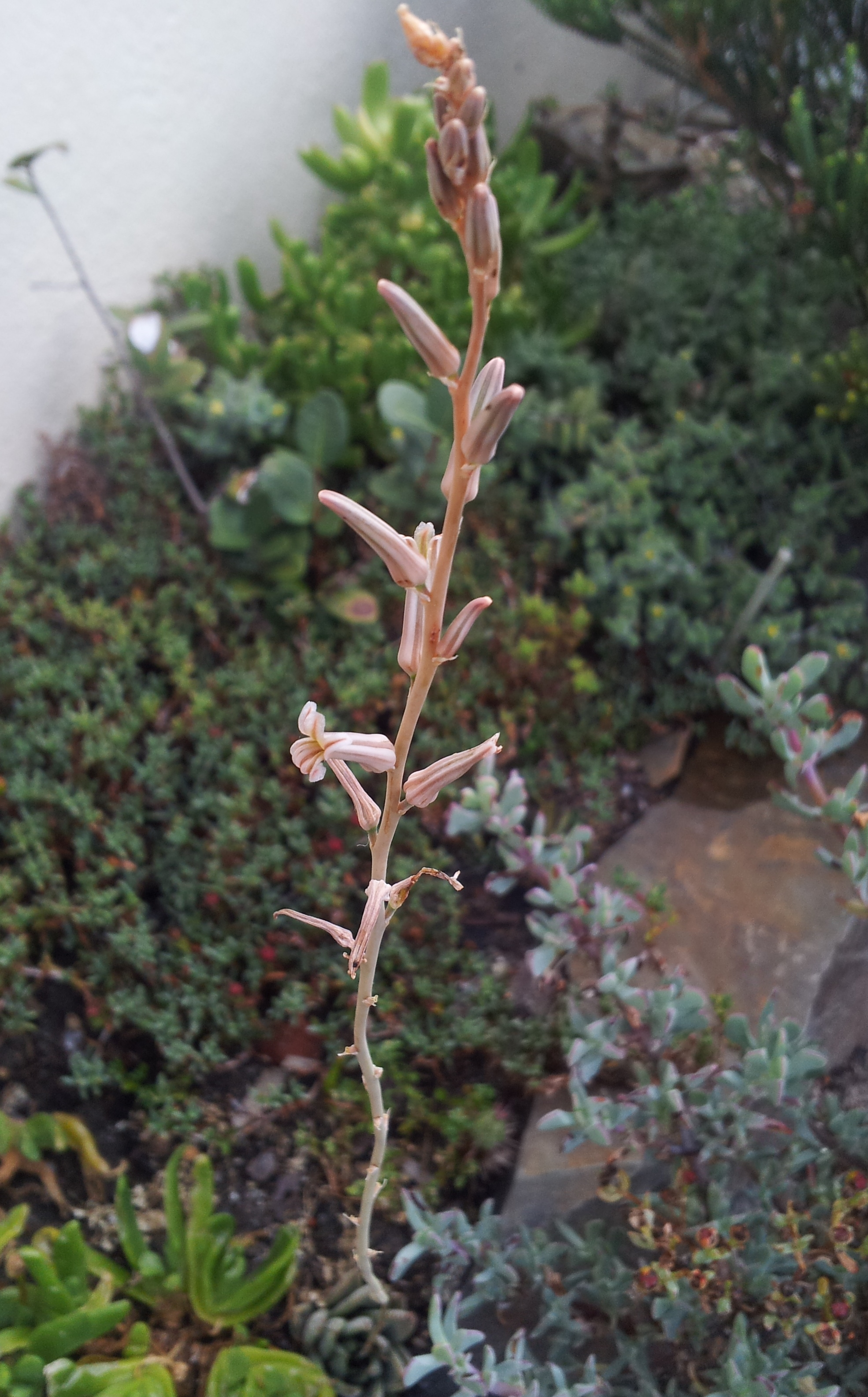 Haworthia limifolia - inflorescence